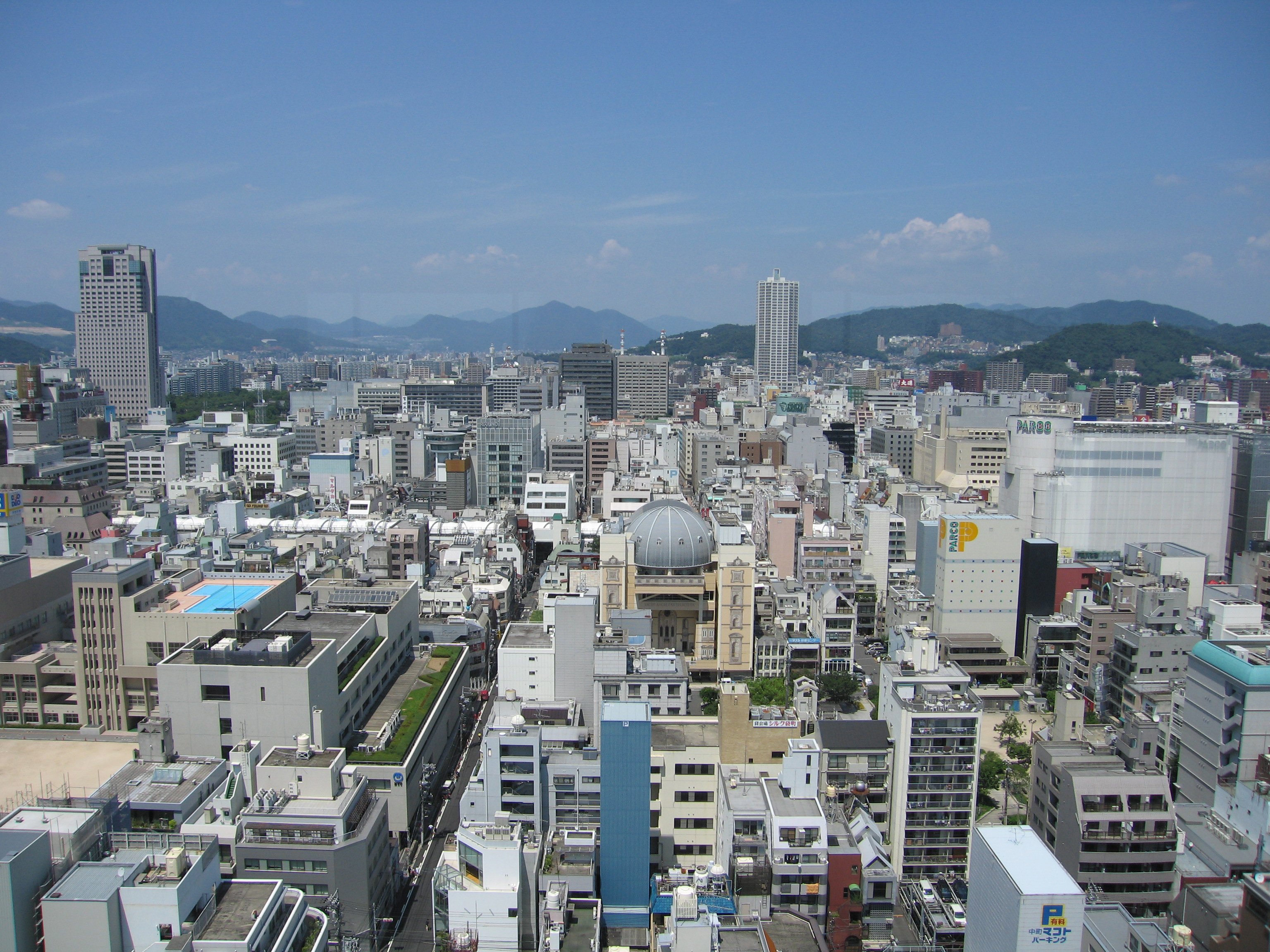 Hiroshima city skyline